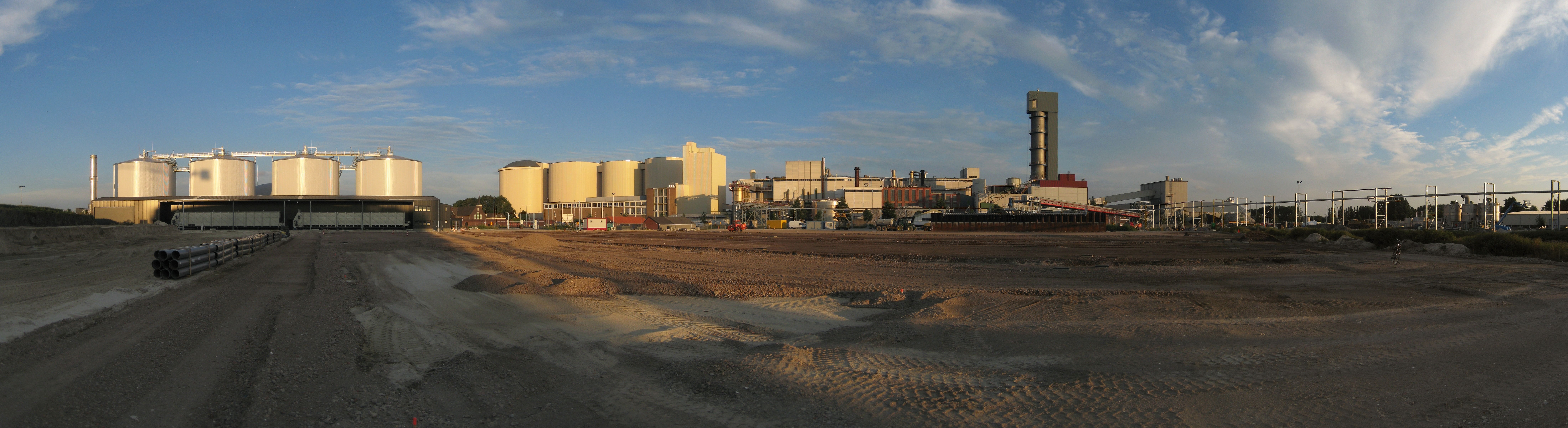 Sugar refinery of the Suiker Unie in Hoogkerk, Groningen, The Netherlands.